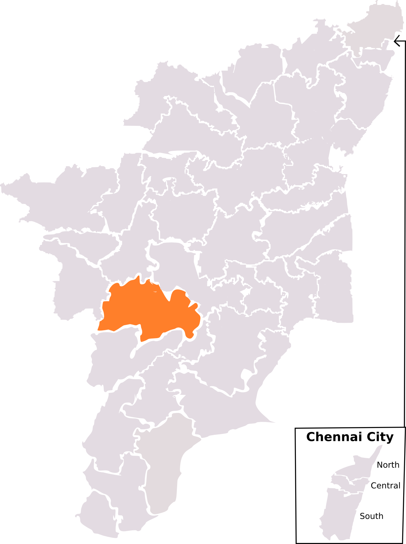 Lok Sabha Election map for Tamil Nadu. Map is based on ECI drawn map. Results are based on ECI website.